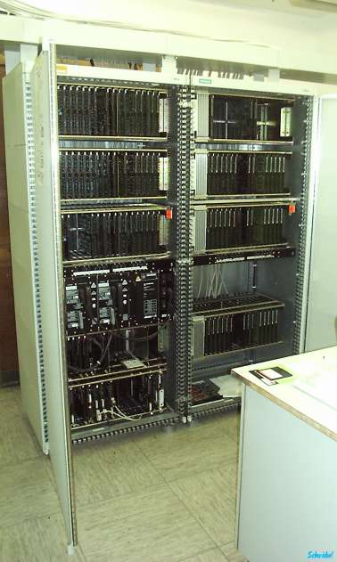 PBX Siemens Hicom300 for aprox 1200 Users